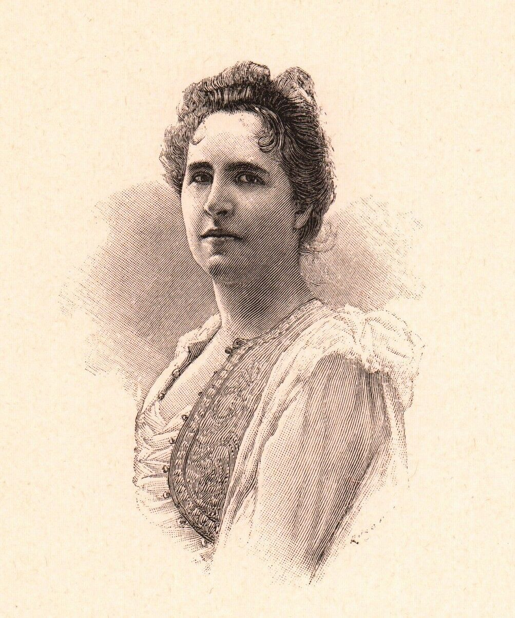 French writer Berthe-Corinne Le Barillier a.k.a. Jean Bertheroy (1868-1927)